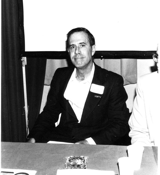 photo of UFO author and investigator James W. Moseley in 1980.